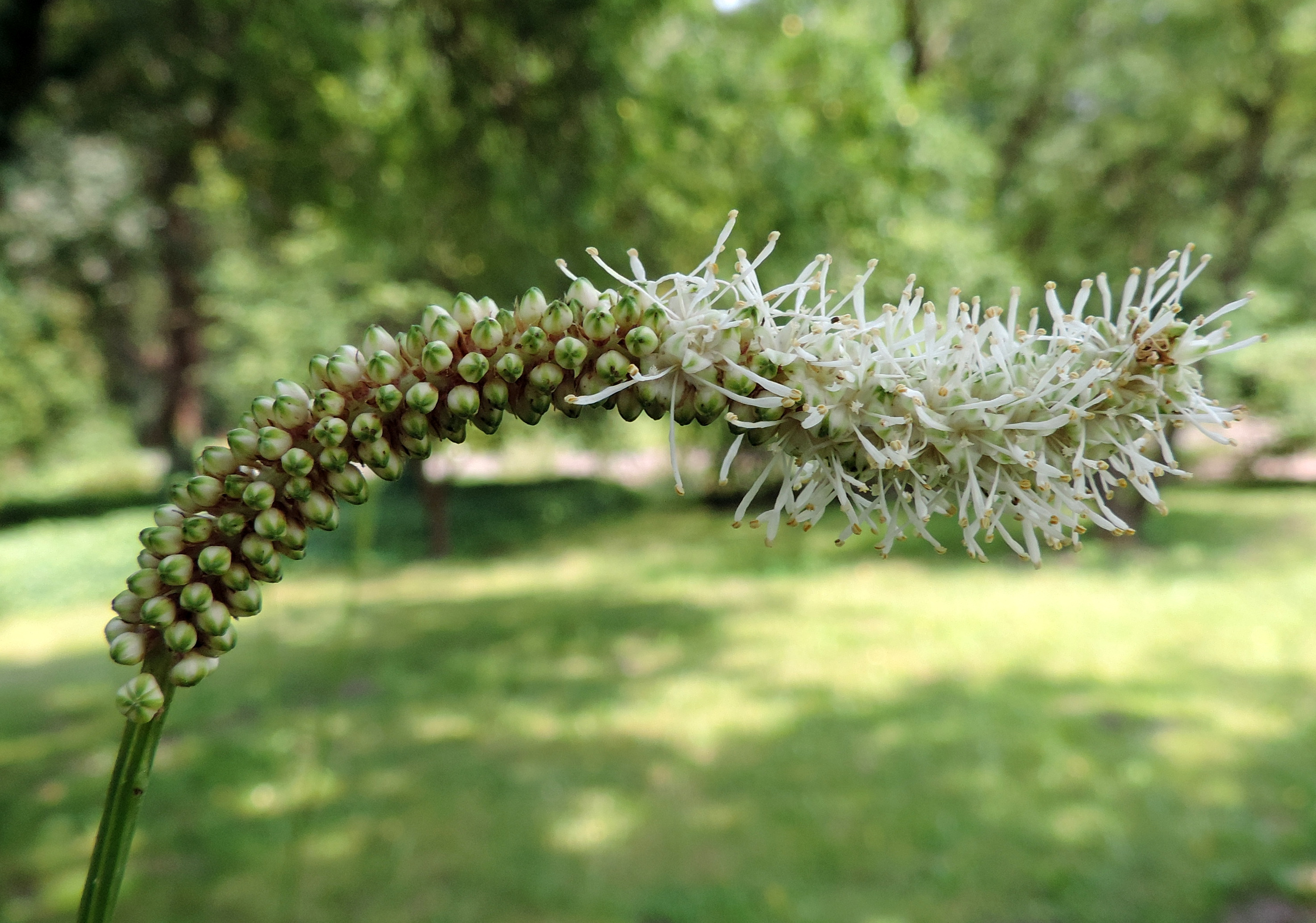 Sanguisorba canadensis